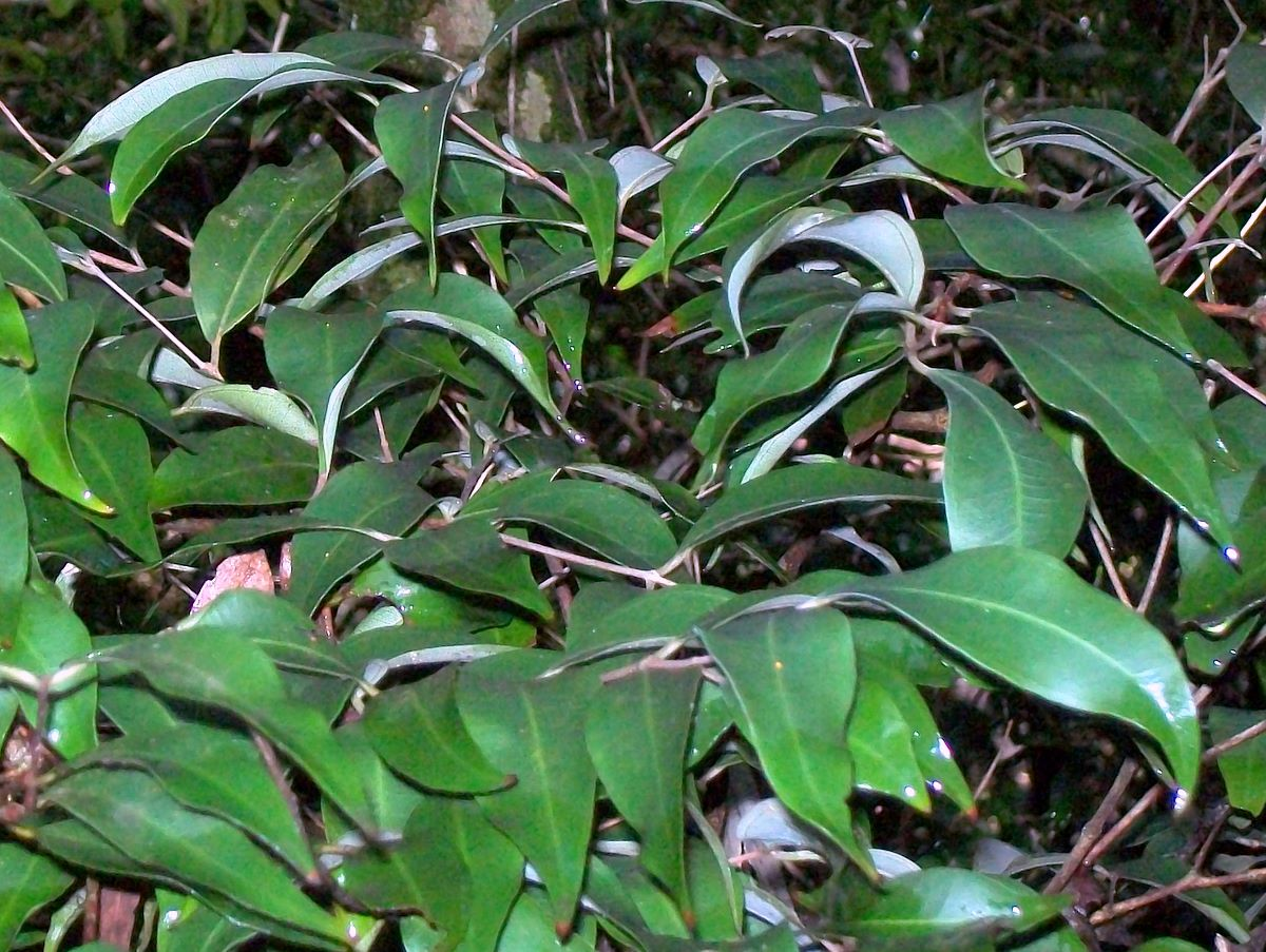 Rhodamnia whiteana, Coffs Harbour Botanic Gardens, Australia